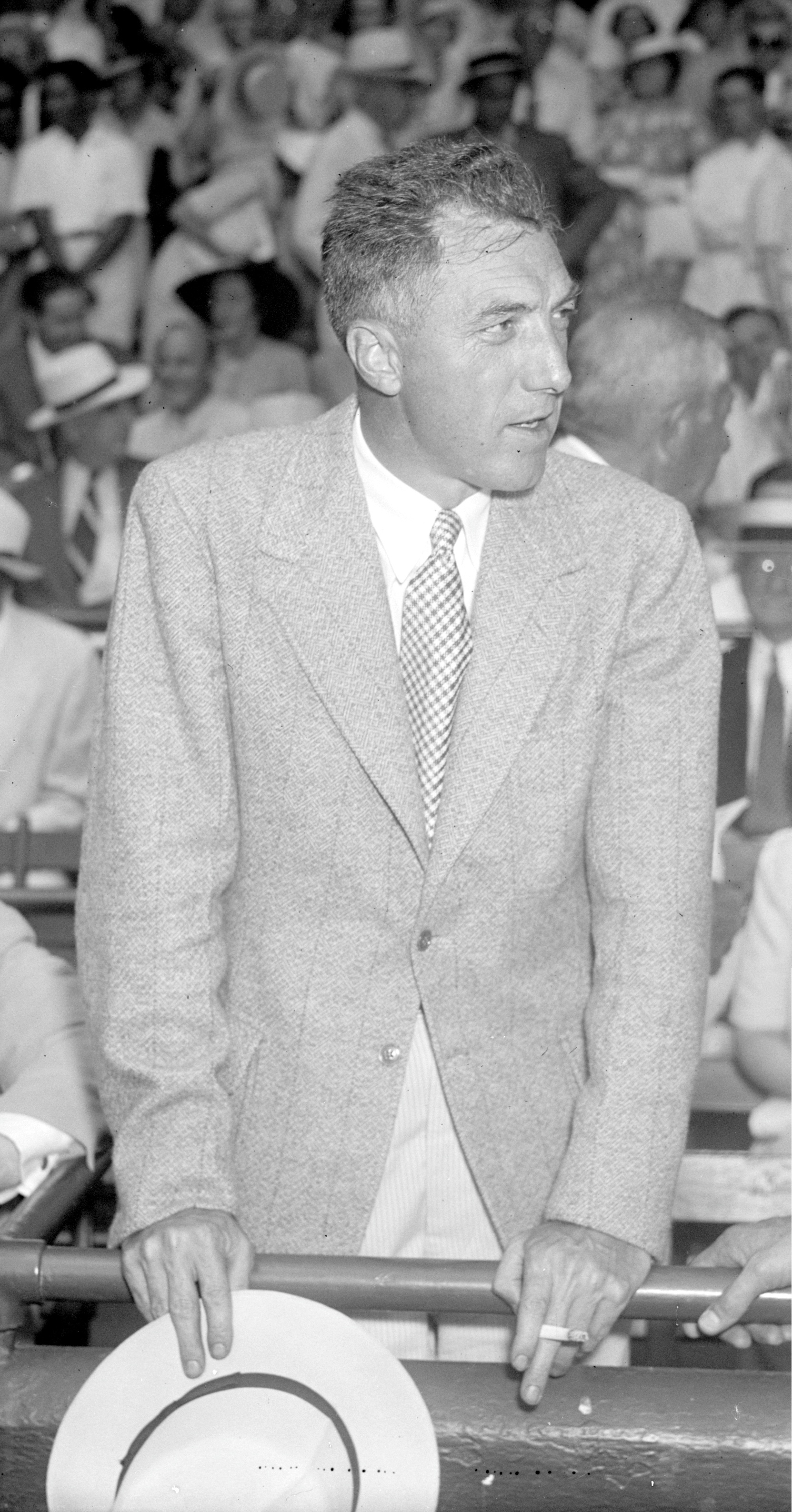 Ford Frick at the 1937 All-Star Game in Washington, D.C.